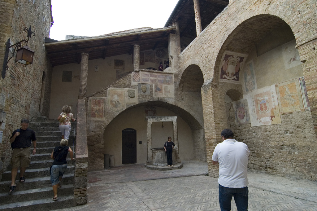 see above